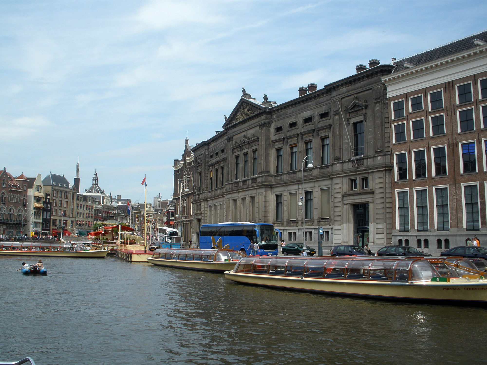 The Allard Pierson Museum in Amsterdam, former headquarters of the Nederlandsche Bank (Dutch national bank).